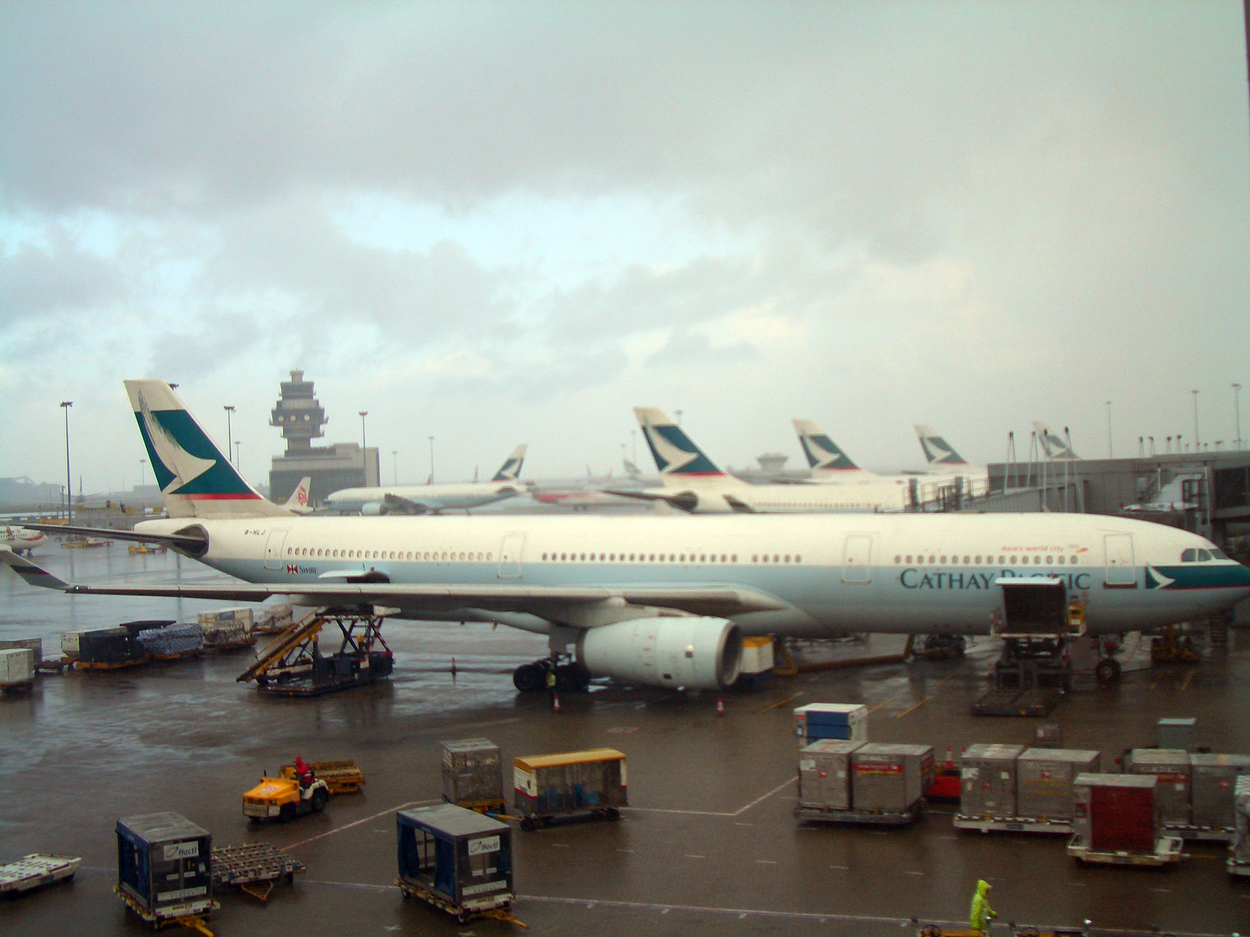 Cathay Pacific Airways A330-301 C/N: 12 B-HLJ at Hong Kong International AirportNagamasaAzai 21:30, 22 September 2007 (UTC)